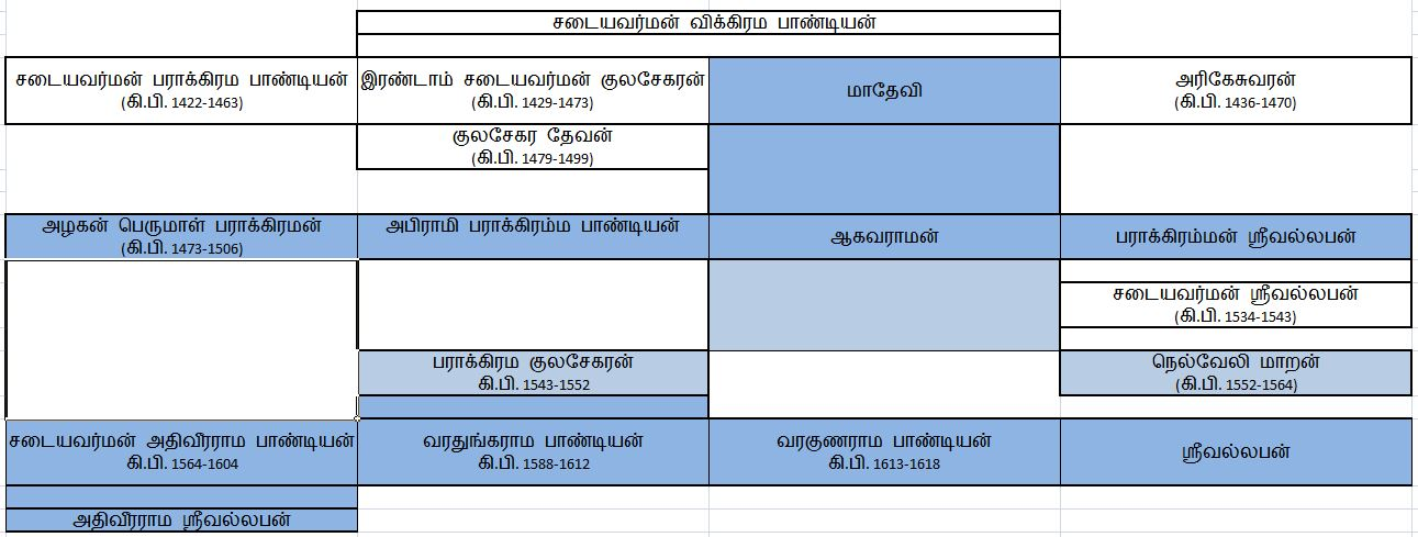 Geneological Table Of Tenkasi Pandyas.